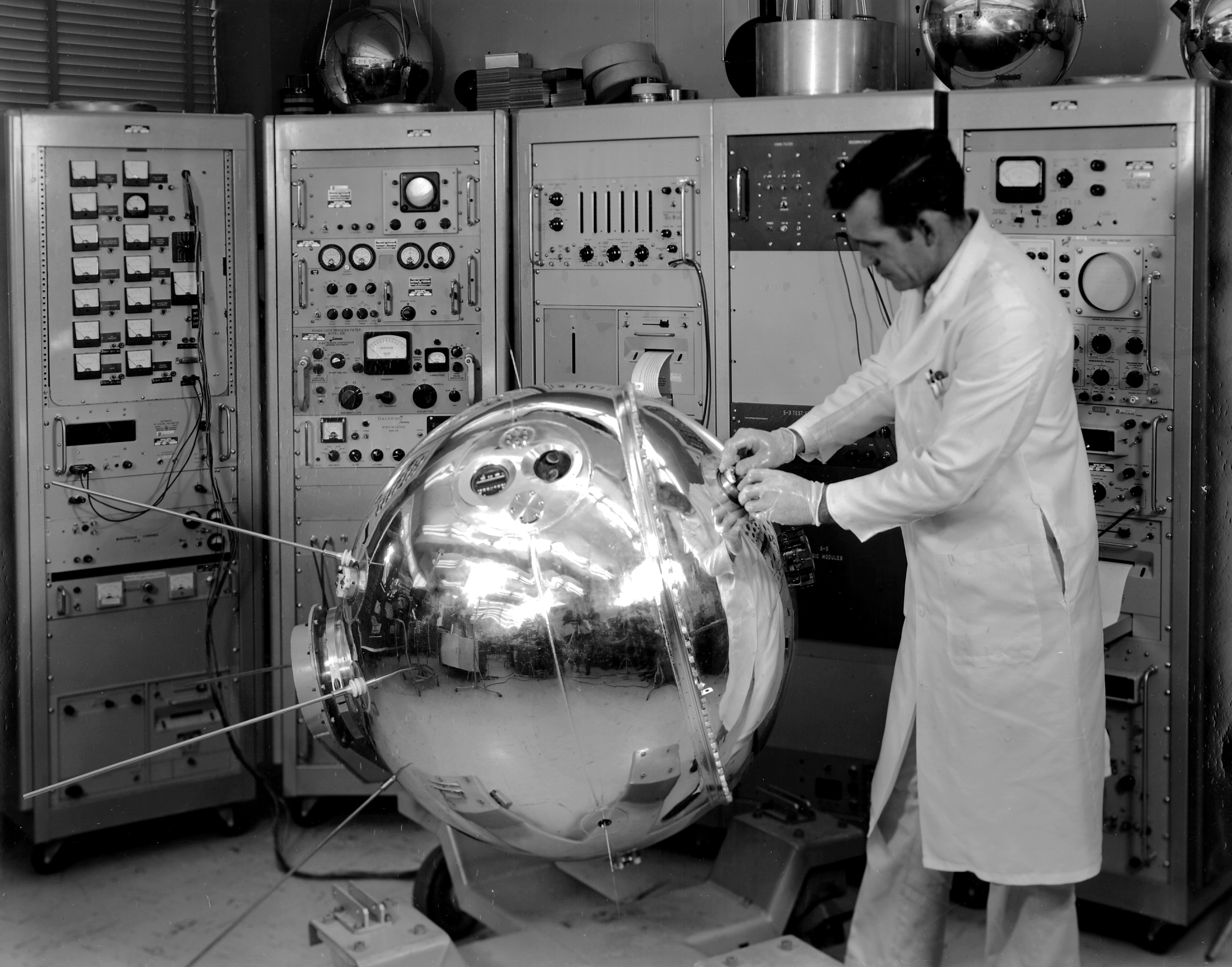 Weighing 405 lbs. (184 kg), this 35-inch (89-cm) pressurized stainless steel sphere measured the density, composition, pressure and temperature of Earth's atmosphere after its launch from Cape Canaveral on April 3, 1963. The mission was one of three that Goddard Space Flight Center specifically conducted to learn more about the atmosphere's physical properties?knowledge that they ultimately used for scientific and meteorological purposes. Explorer XVII carried two spectrometers, four vacuum pressure gauges and two electrostatic probes. Before it reached its intended orbit that ranged from 158 to 570 miles (254-917 km) above Earth, the satellite was spun up to about 90 rpm.